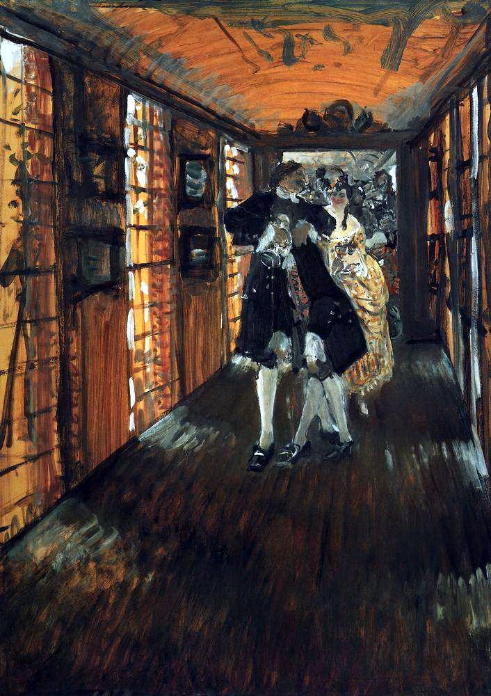 The Grand Eagle Cup. 1910. Tempera on cardboard. The Picture Gallery of Armenia, Erevan, Armenia.